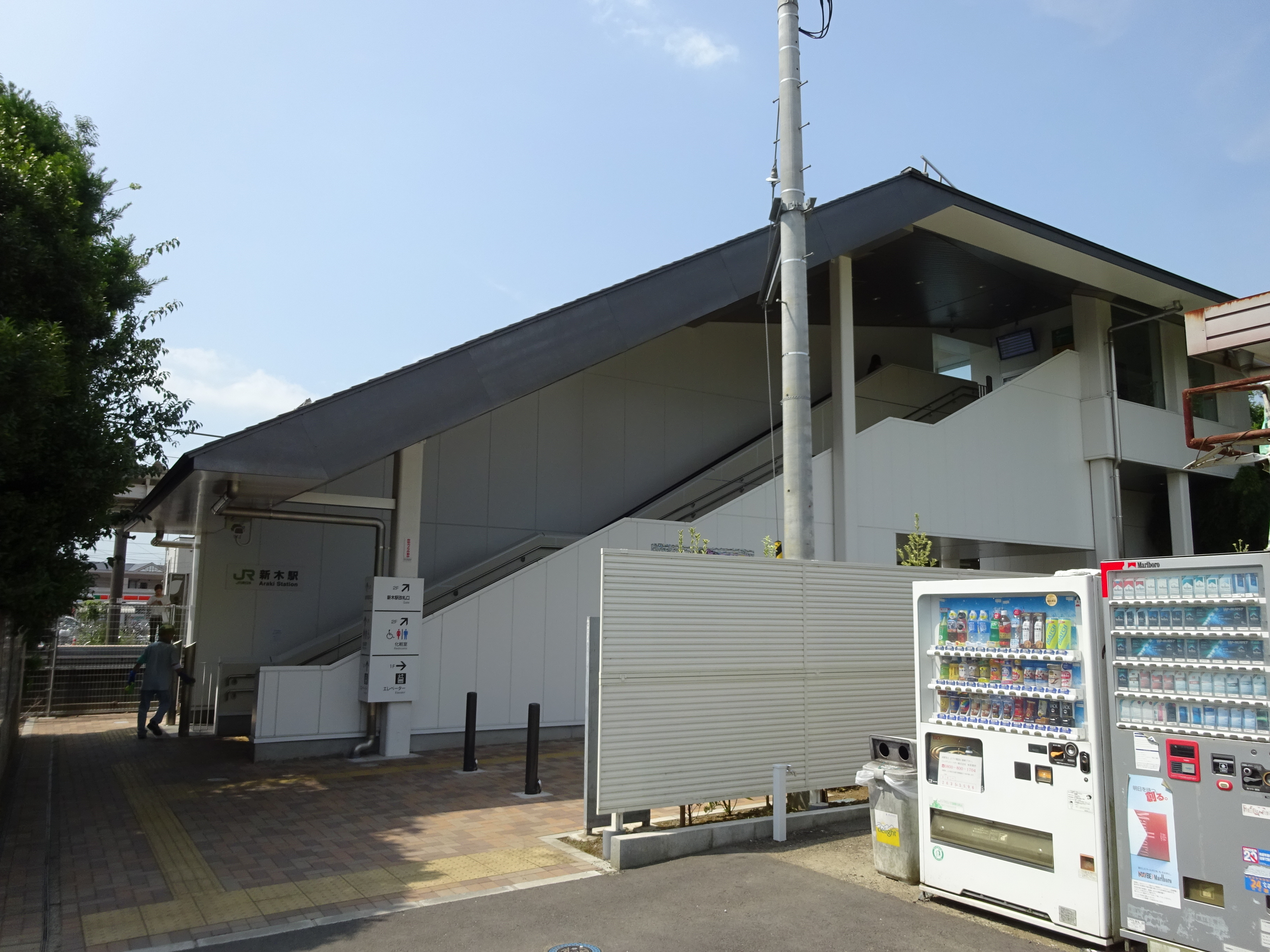 North entrance of Araki Station (Chiba)